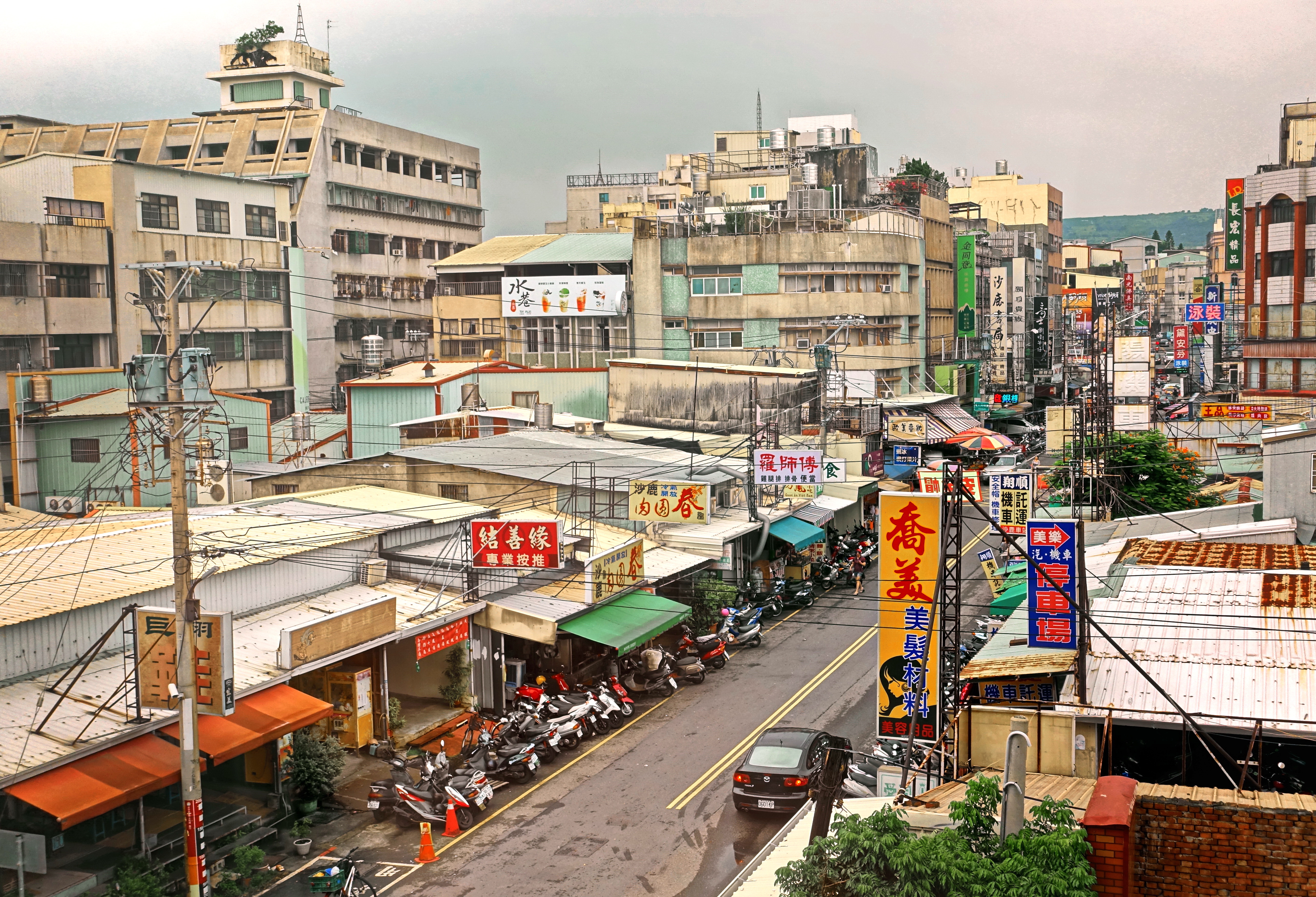 Zhongzheng Street, Shalu District, Taichung City, Taiwan.